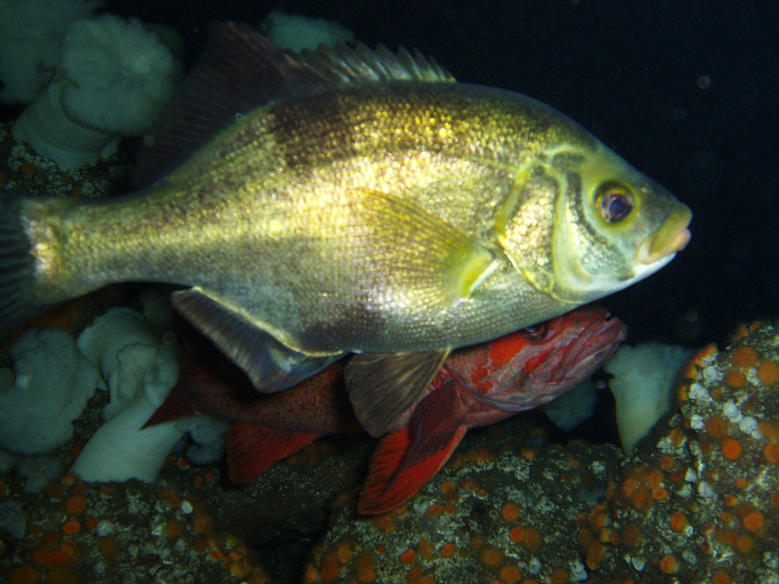 Rhacochilus toxotes (Rubberlip surfperch). Courtesy of the Monterey Bay Aquarium.